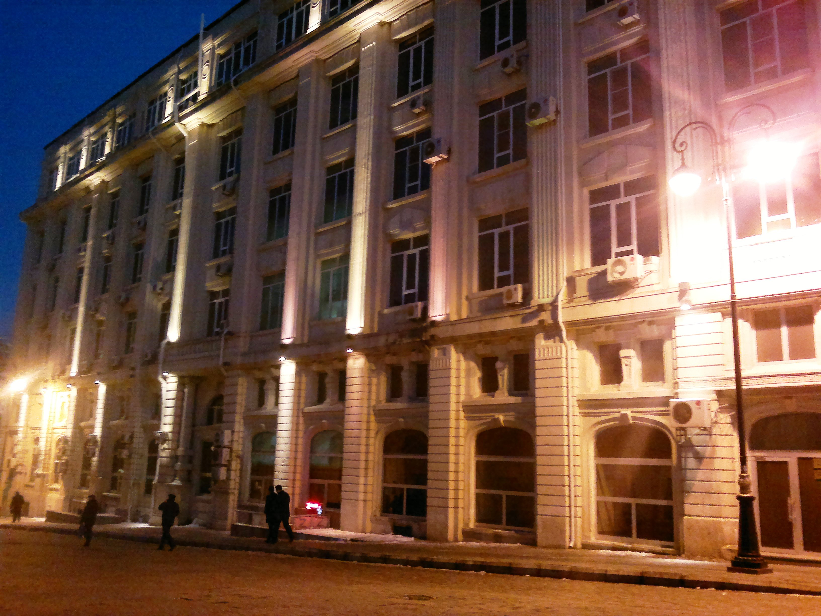 Building of Constitutional Court in Baku. Built in 1887.